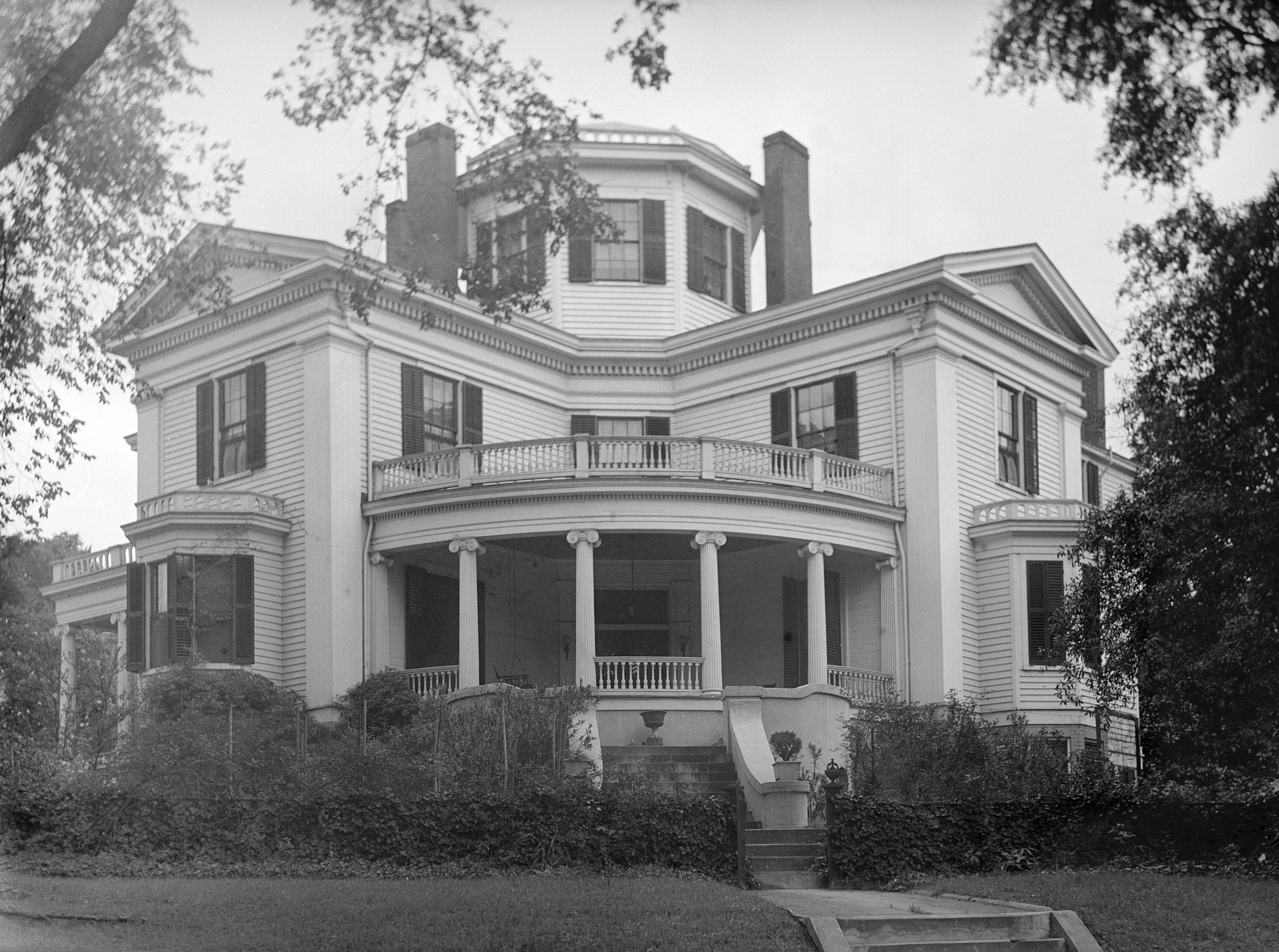 Cadwalader Raines House (Bibb County, Georgia) AKA Carmichael House, Raines-Carmichael House, or Raines-Miller-Carmichael House